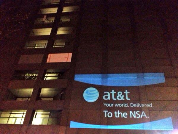 "Your world delivered ... to the NSA. On AT&T building in SF where whistleblower Mark Klein saw the NSA spying room." Photo by Kurt Opsahl, attorney with the Electronic Frontier Foundation; from "The Day We Fight Back" protest in San Fransisco, February 11, 2014.